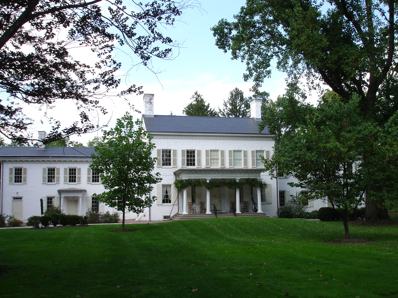 I took this photo in 2006